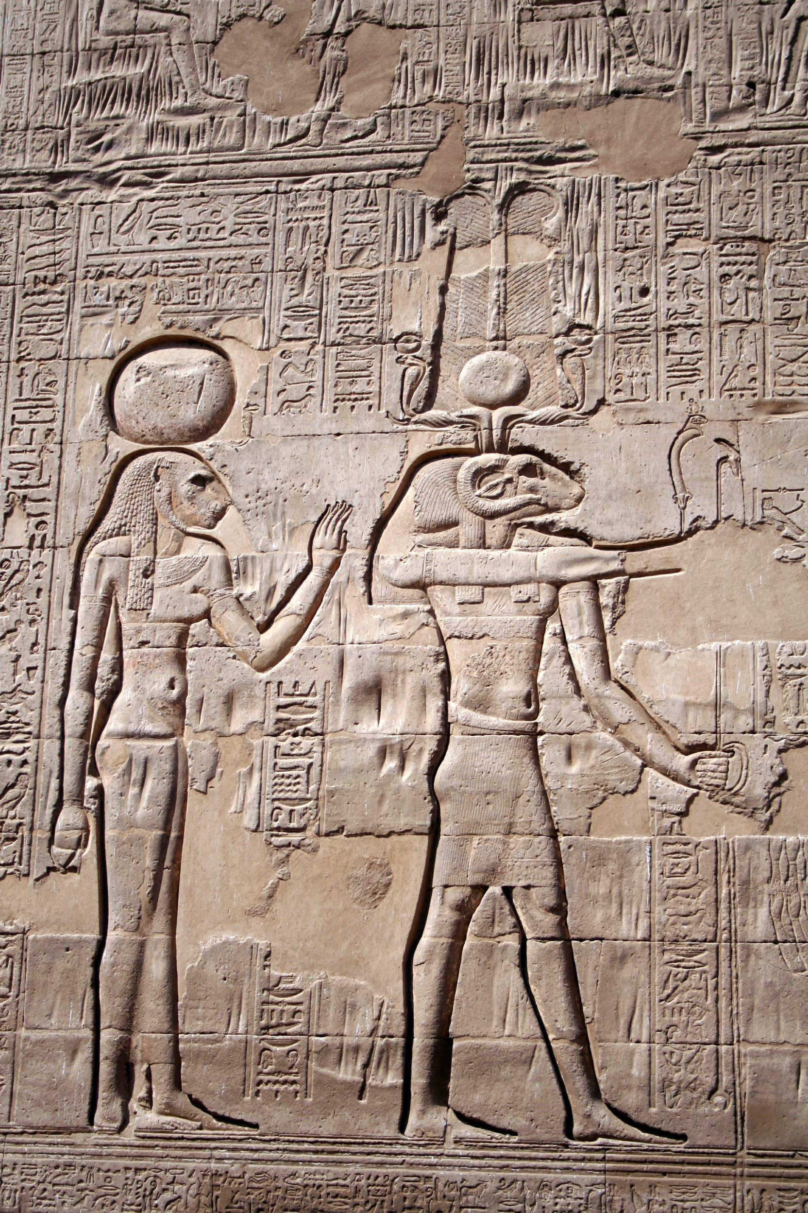 The temple of Khnum, Esna - wall carving shows Khnum and Menhit...